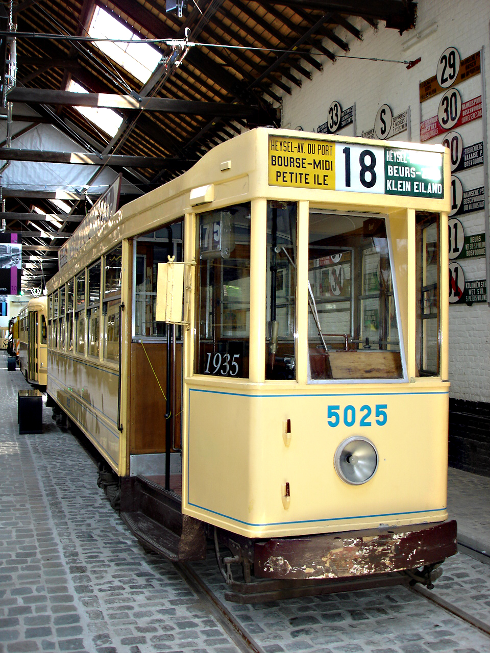 Front of motorcar 5025